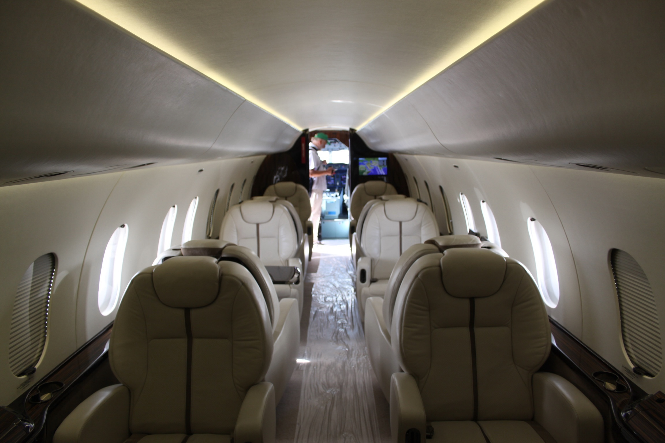 At Dubai